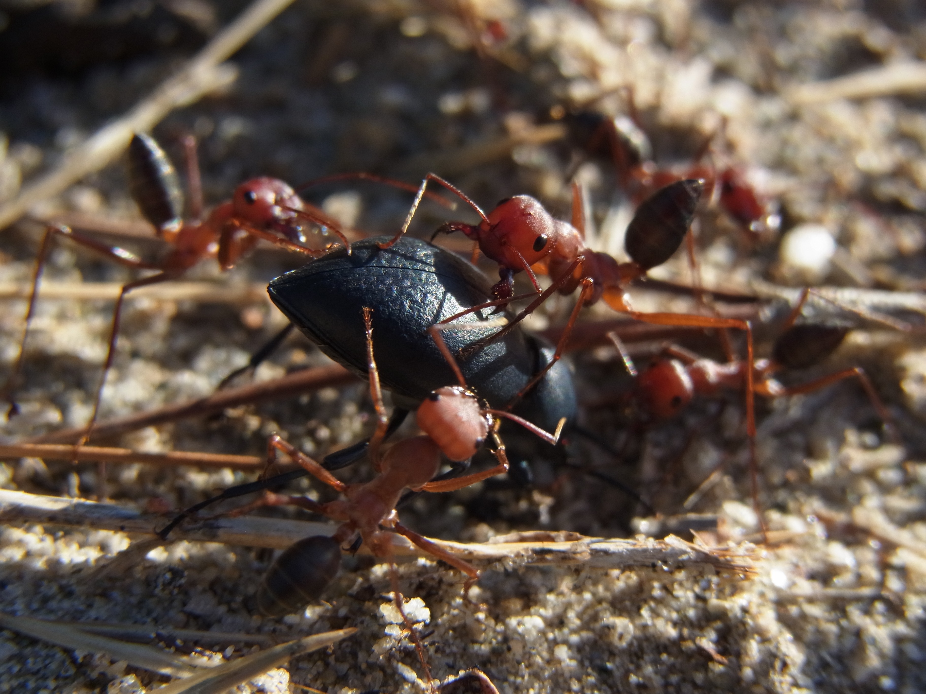 Soldiers of the desert ant Cataglyphis nodus are fighting a darkling beetle of the species Tentyria rotundata near the entrance of their nest. Skala Prinos, Thasos / Greece